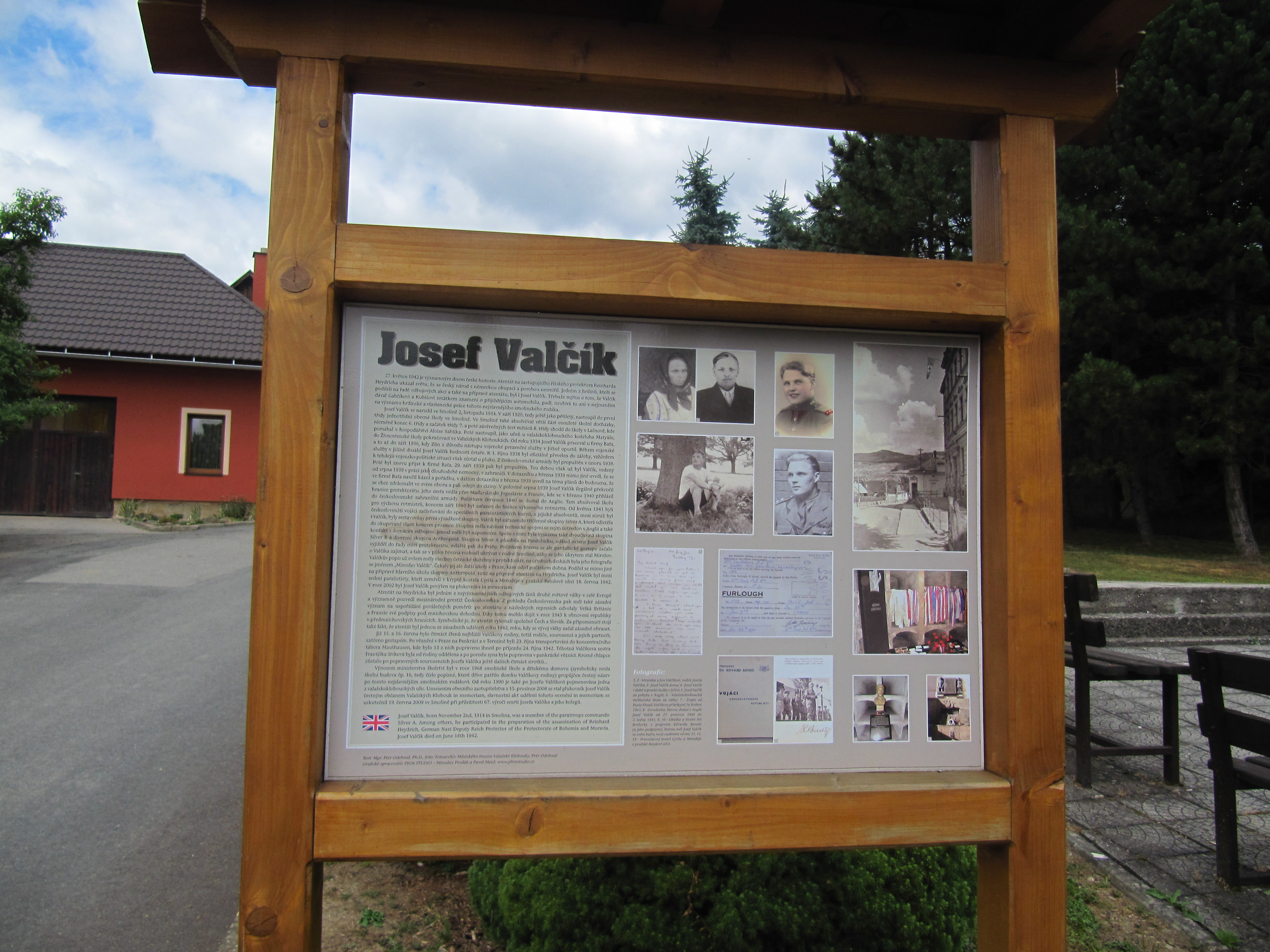 Valašské Klobouky, Zlín District, Czech Republic, part Smolina.